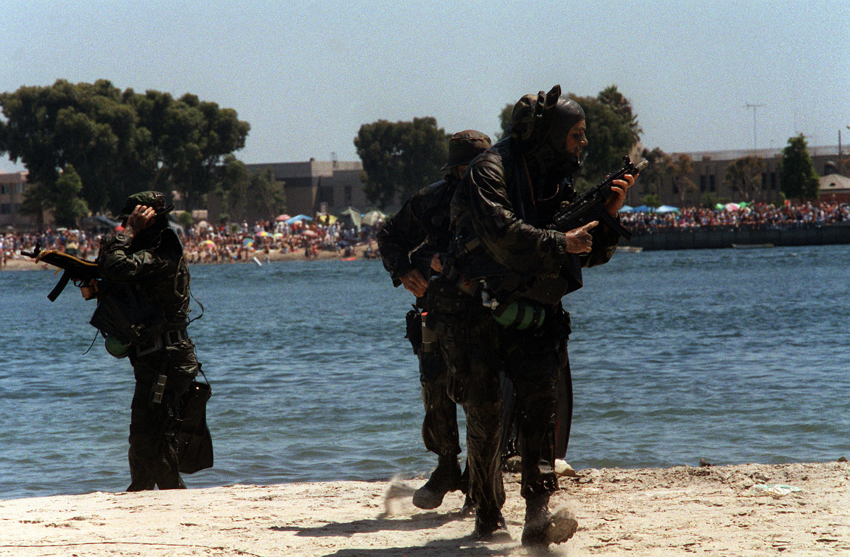 Members of a U.S. Navy Sea-Air-Land (SEAL) team patrol the beach during a public demonstration.